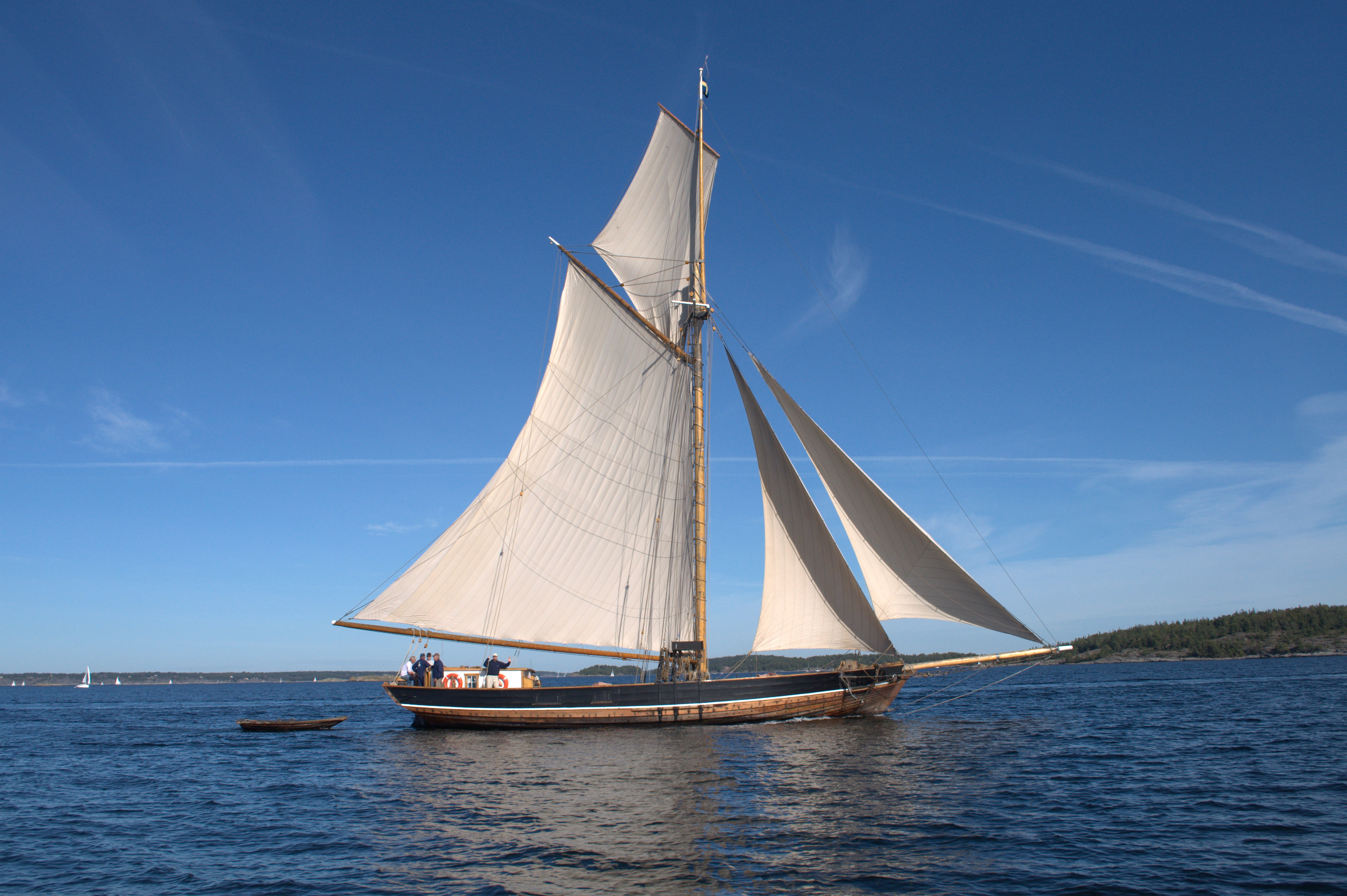 The traditional woodyacht Sofia Linnea sailing outside Nämndö in the Stockholm archipelago.